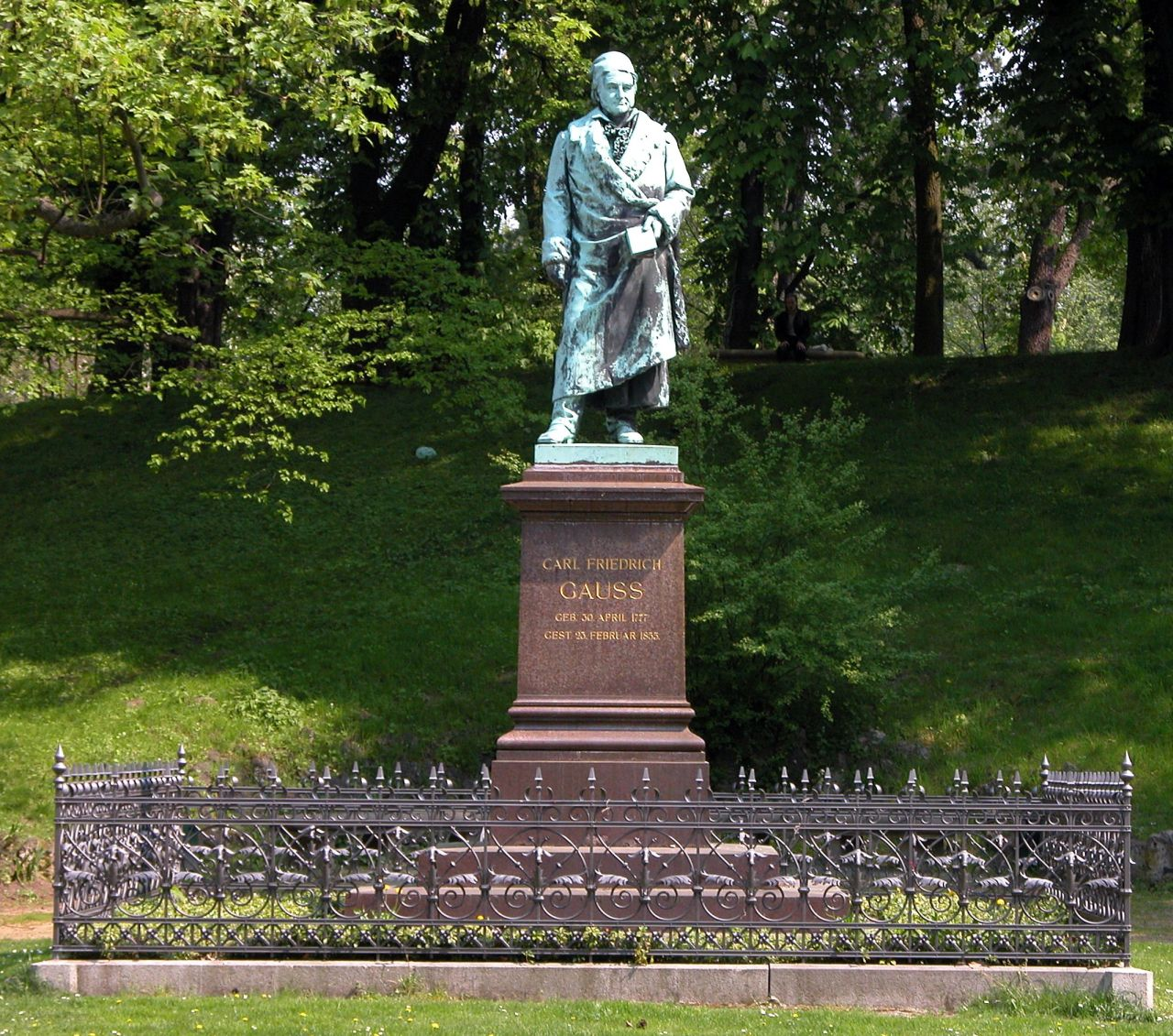 Brunswick, Germany: Carl Friedrich Gauß monument